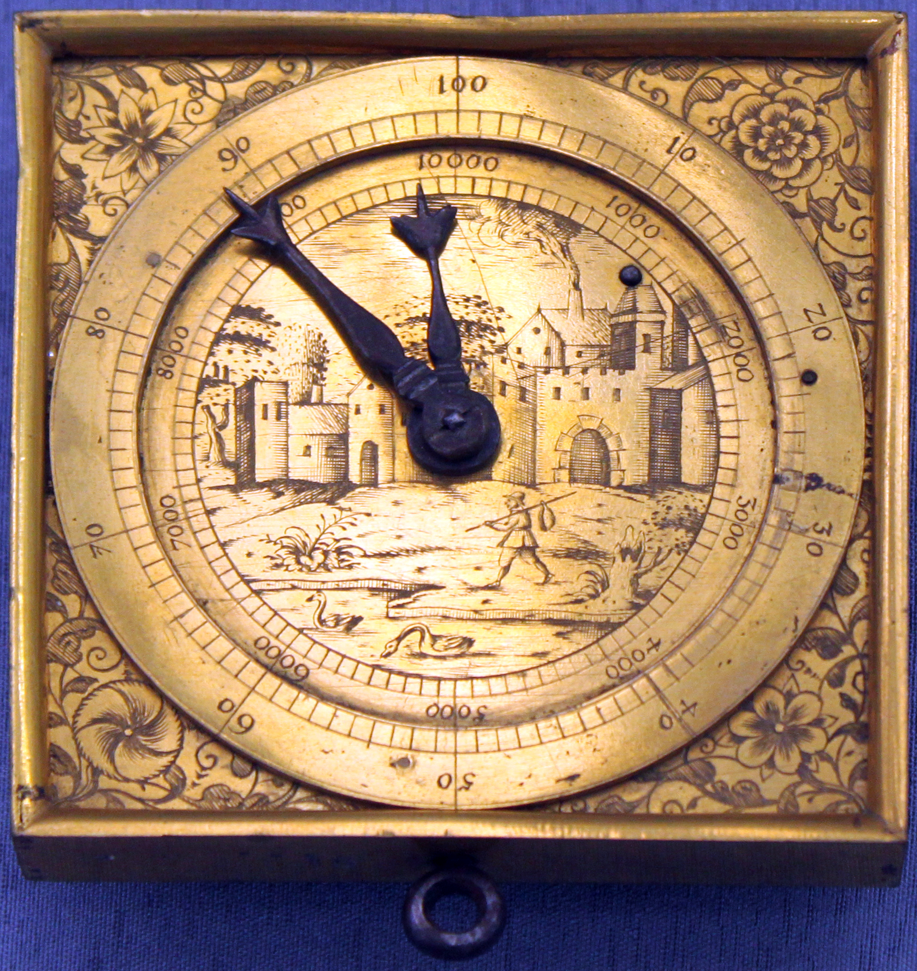 Pace-counting device, Southern Germany, 1590; Germanic National Museum in Nuremberg